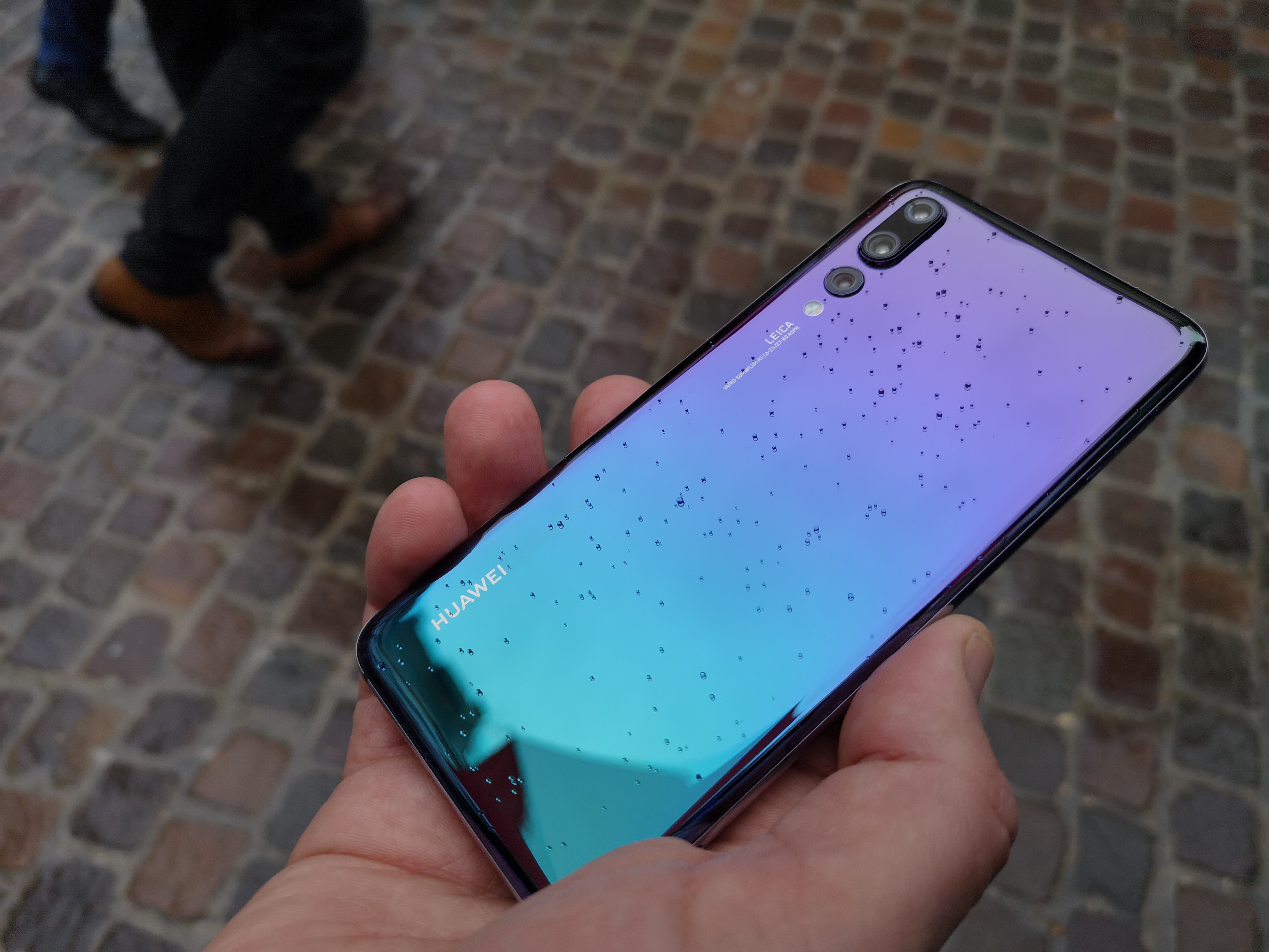 The Huawei P20 Pro, in "twilight" finish. photo taken in Paris.